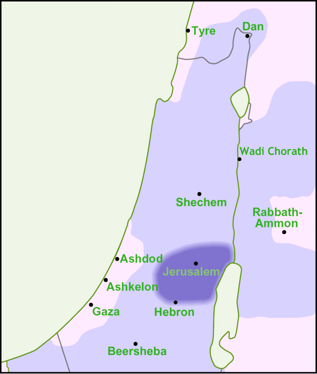 The approximate location of the Wadi Chorath